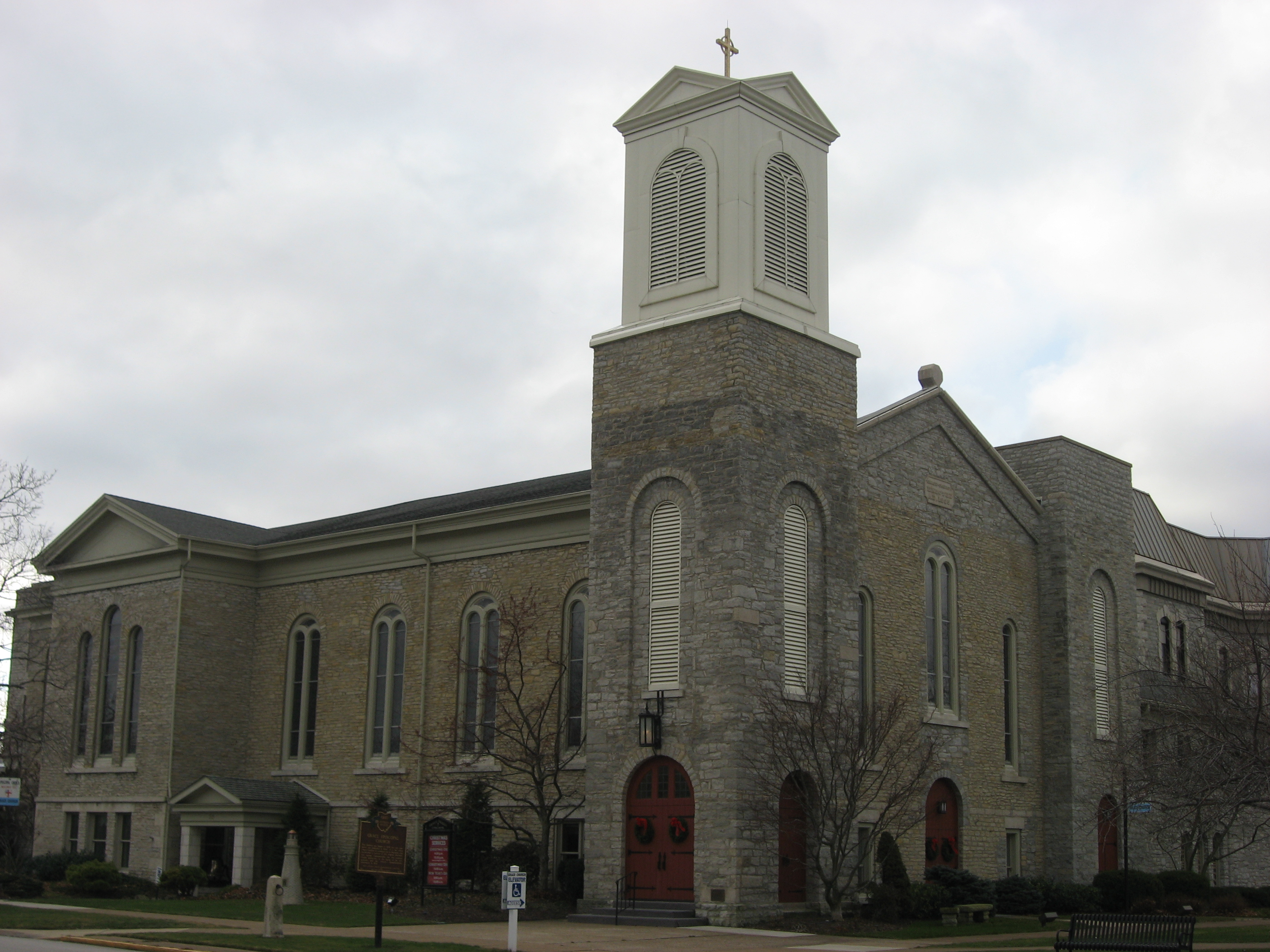 Front and eastern side of Grace Episcopal Church, located at 315 Wayne Street (U.S. Route 6) in Sandusky, Ohio, United States. Built in 1835, it is listed on the National Register of Historic Places.